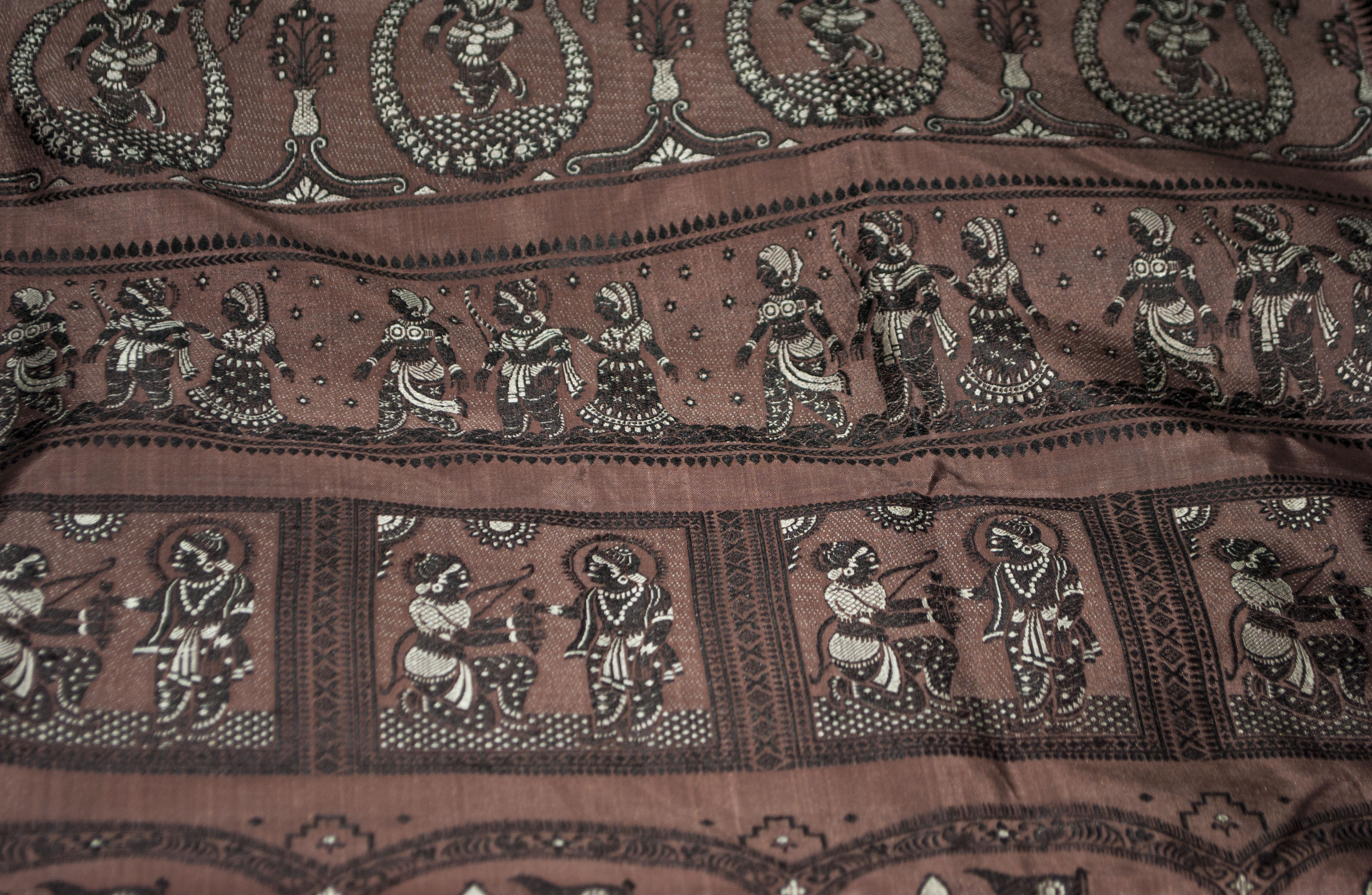 Baluchori Saree